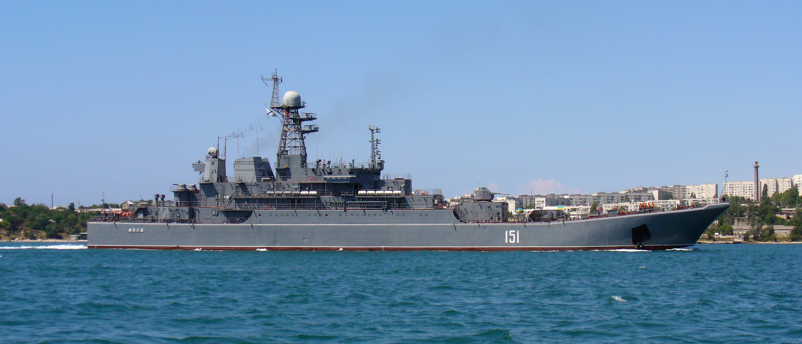 Project 775M Ropucha-II class russian tank landing ship "Azov". The Black sea, Sevastopol, 2008-07-18.